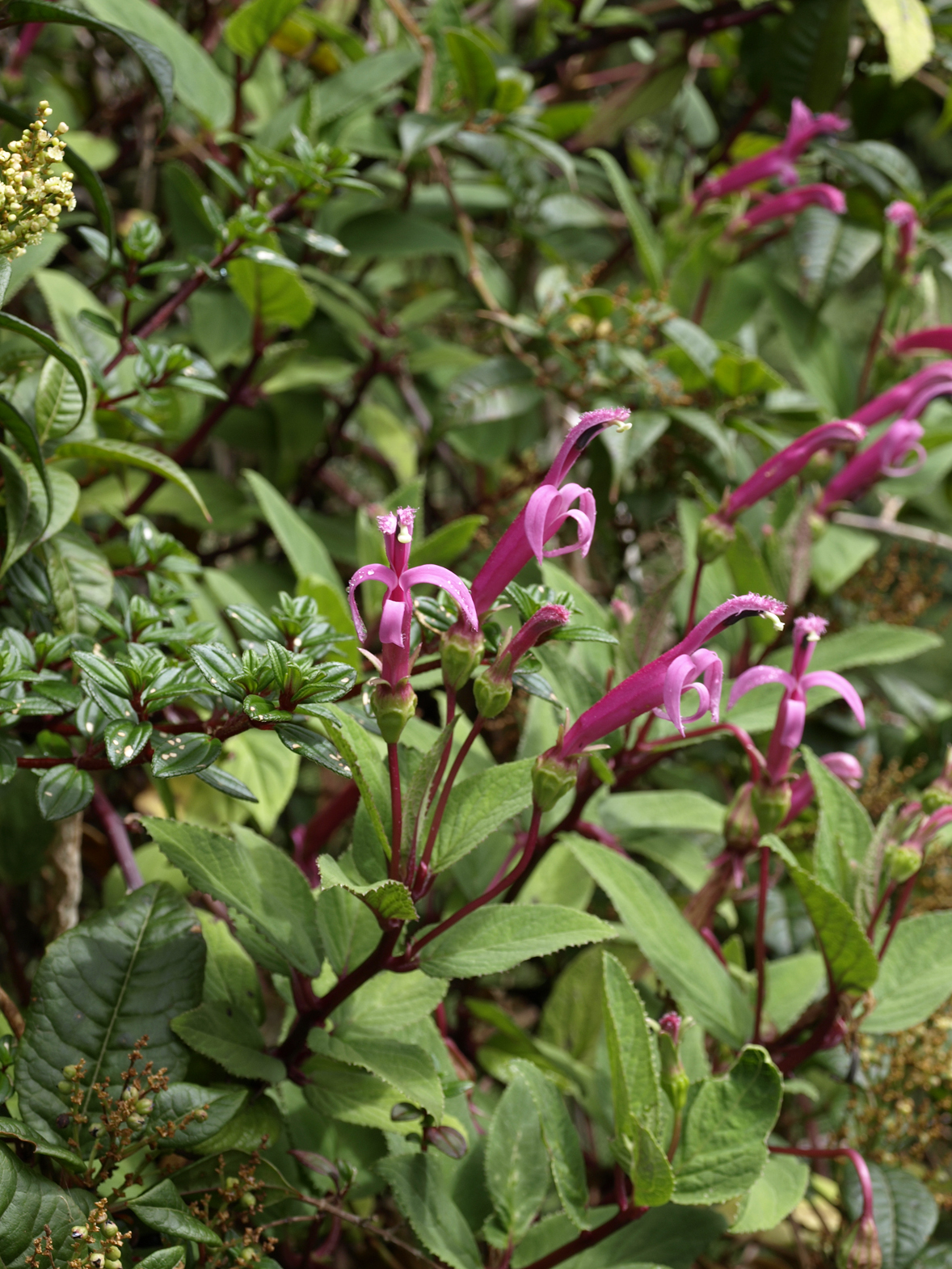 Centropogon gutierrezii, Poas Volcano, Costa Rica